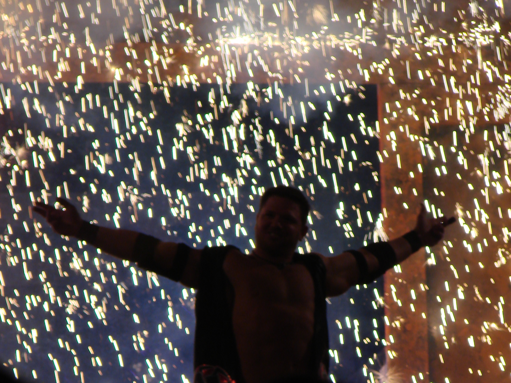 A.J. Styles performing his signature pose, which refers to his Christian faith.